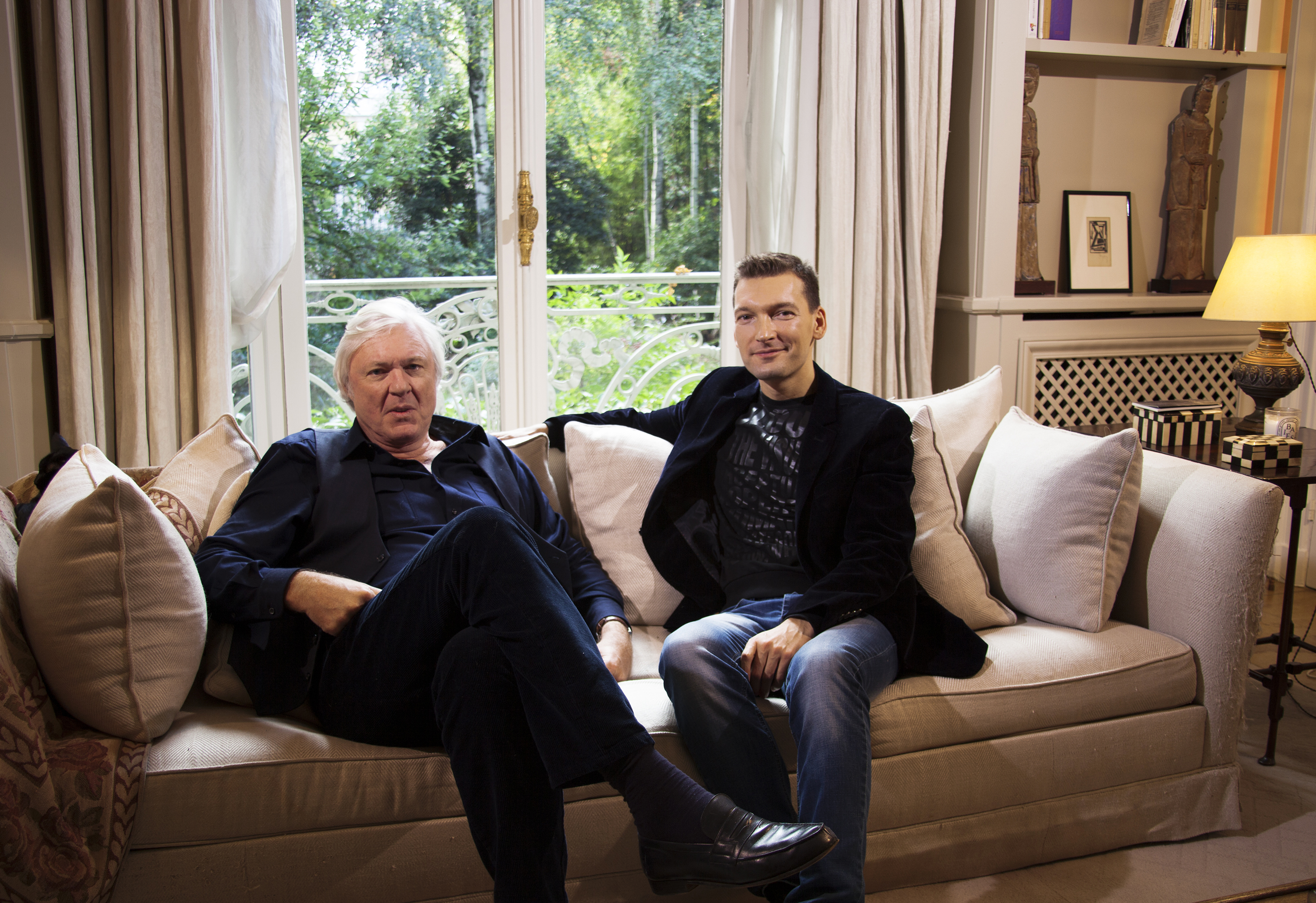 David McNeil and Aleh Lukashevich